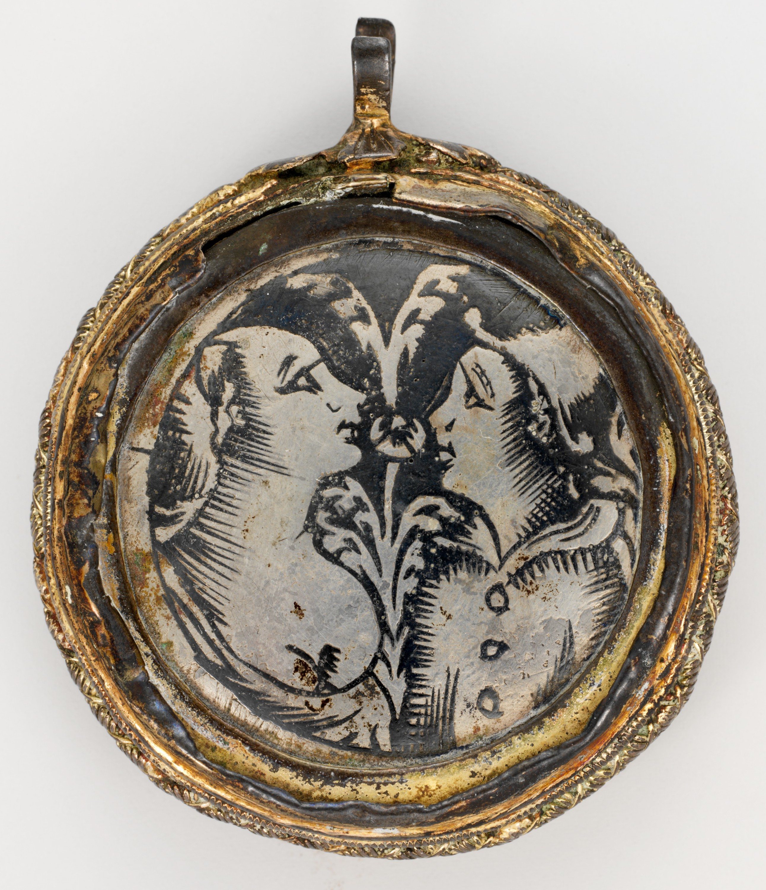 probably Northern Italian; Pendant; Metalwork-Silver In Combination